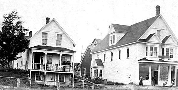 Estey store in Millville, New Brunswick, circa 1910.